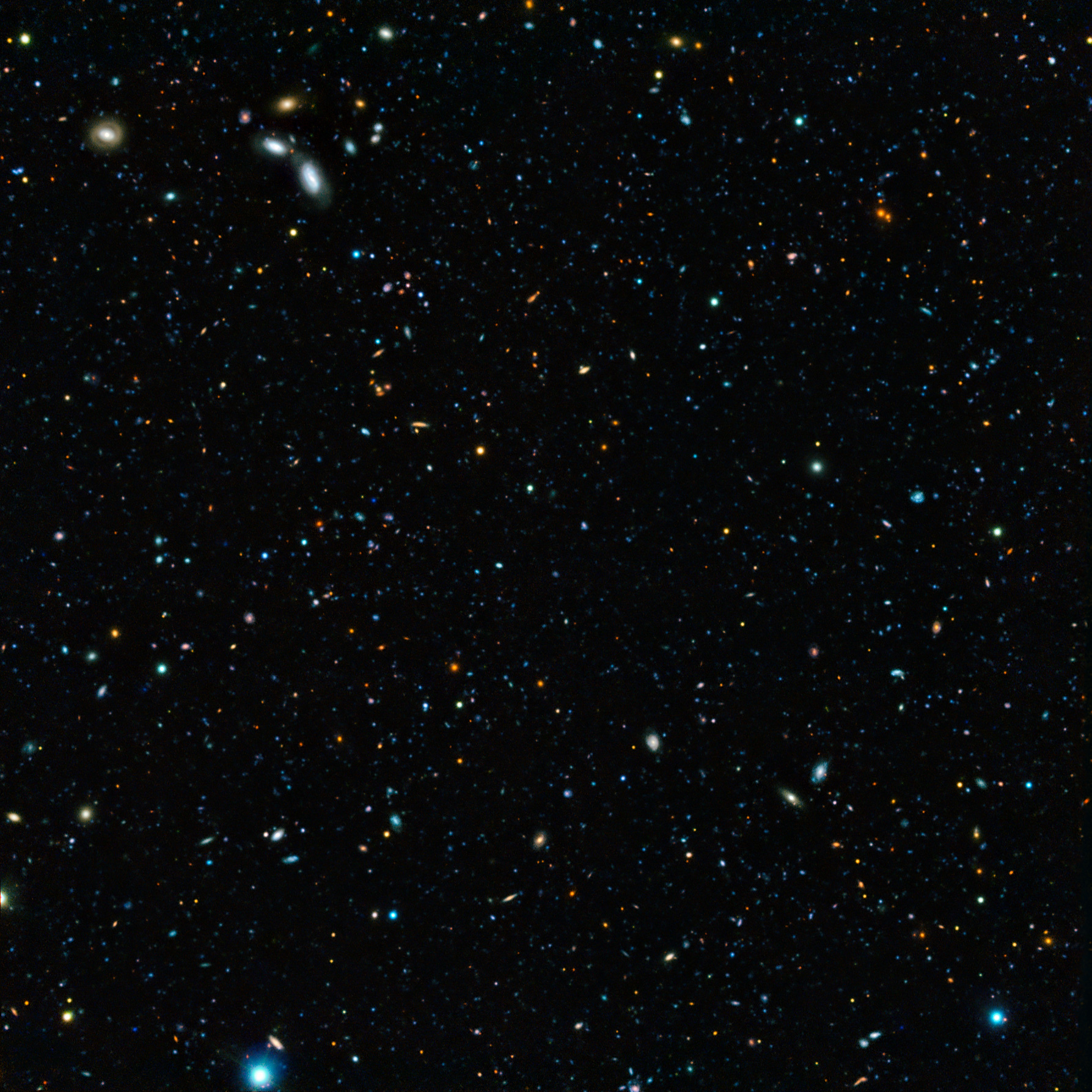 This composite image of the GOODS-South field — the result of an extremely deep survey using two of the four giant 8.2-metre telescopes composing ESO’s Very Large Telescope (VLT) and a unique custom-built filter — shows some of the faintest galaxies ever seen. It also allows astronomers to determine that 90% of galaxies whose light took 10 billion years to reach us have gone undiscovered. The image is based on data acquired with the FORS and HAWK-I instruments on the VLT. It shows in particular two varieties of light emitted by excited hydrogen atoms, known as Lyman-alpha and H-alpha.